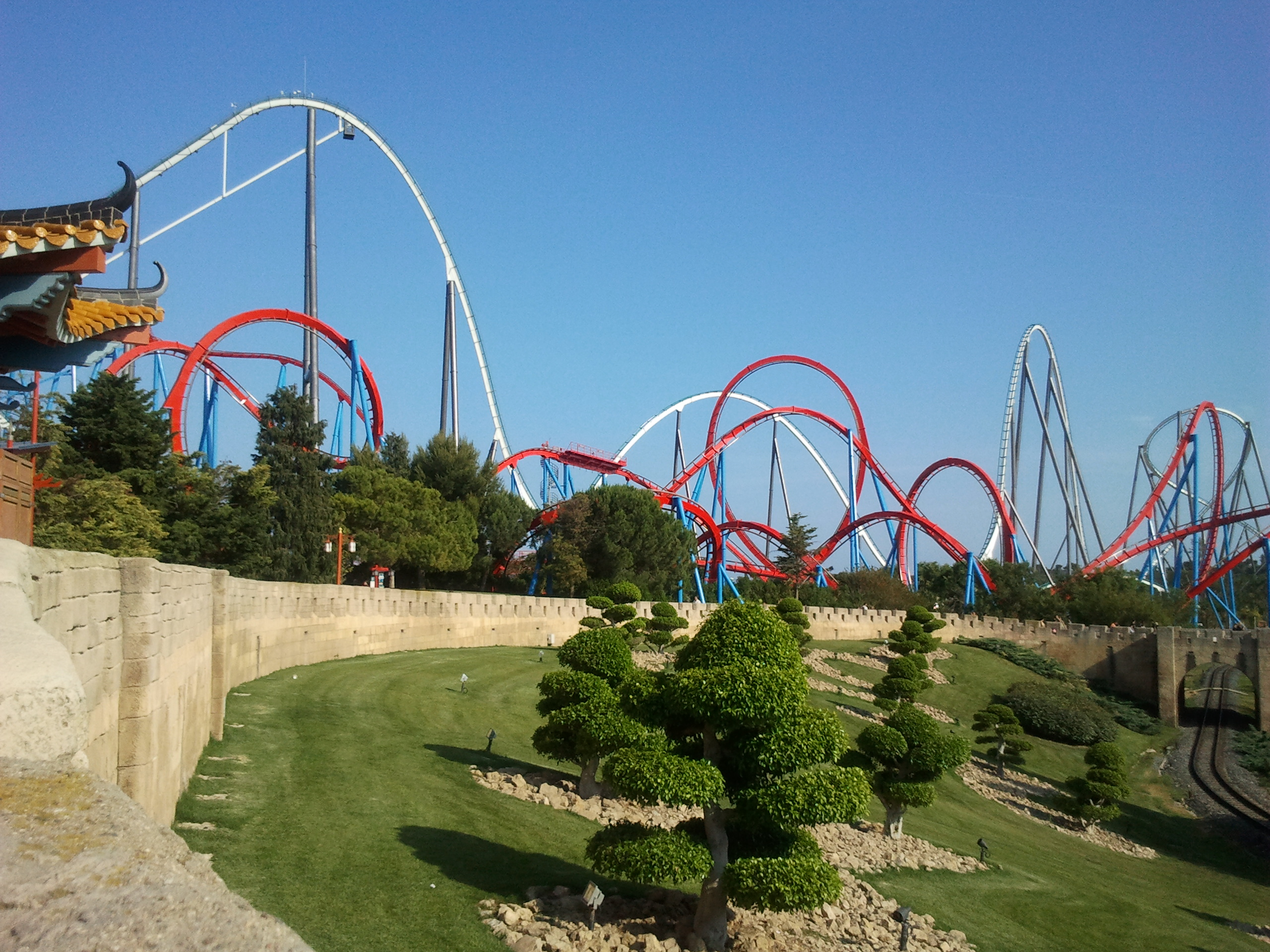 Image of Shambala & Dragon Khan atraccions at PortAventura